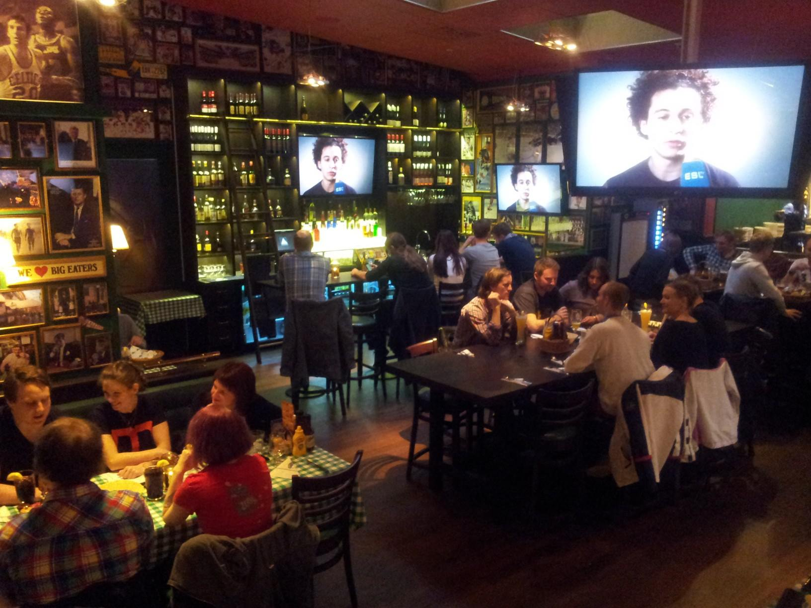 EG Stephano on screen at BarCraft STHLM for WCS Europe Finals, at O'Learys Fridhemsplan, Stockholm 2013-05-26